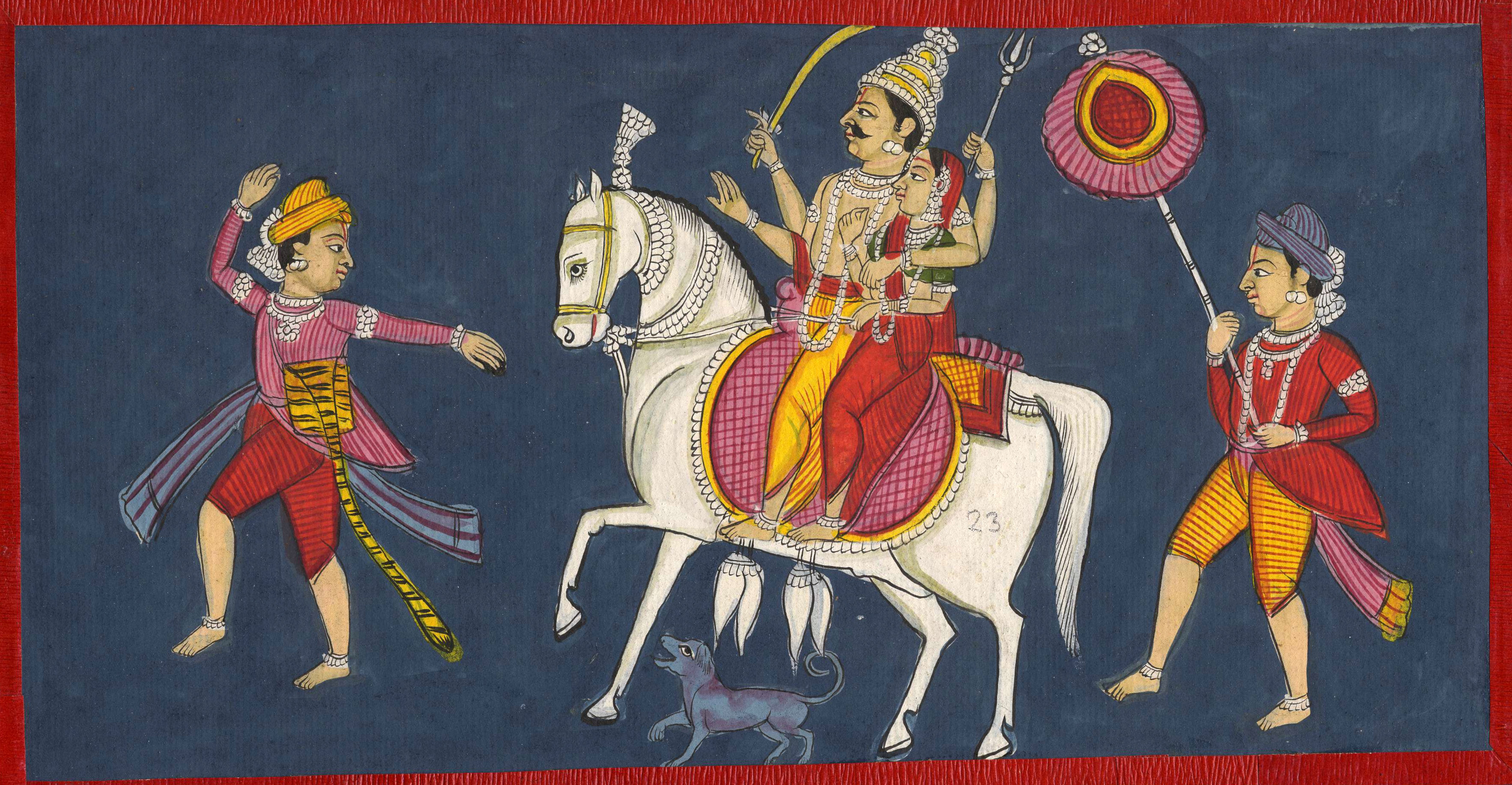 "Khandoba and his wife on a horse. This regional Hindu deity is a form of Śiva and is usually depicted either in the form of a linga or as a figure riding a horse. Here he is carrying a sword and a trident, accompanied by a dog."